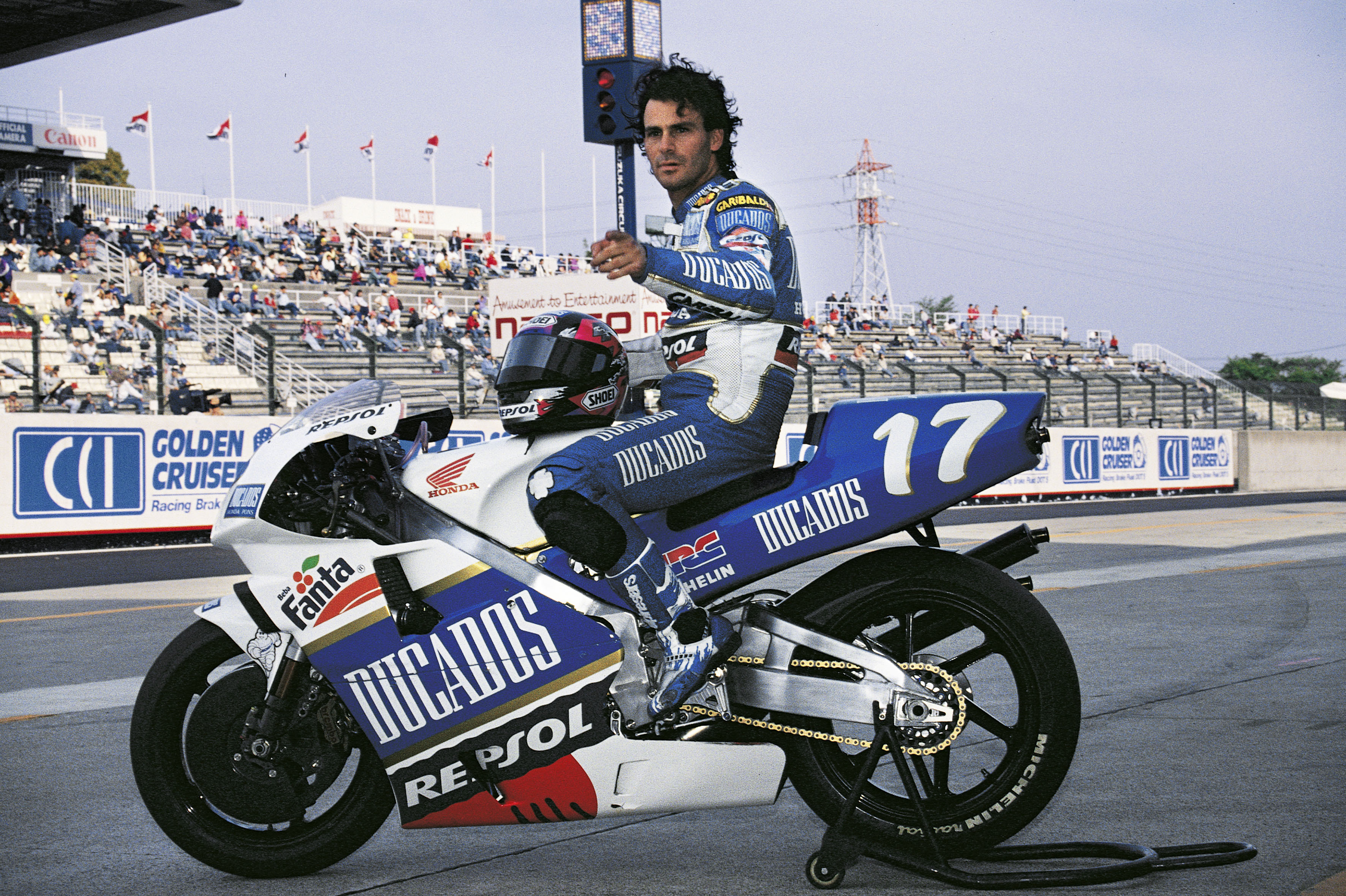 Suzuka (Japan). Alberto Puig would finish the season fifth in the 500cc World Championship. Only factory riders finished ahead of him.